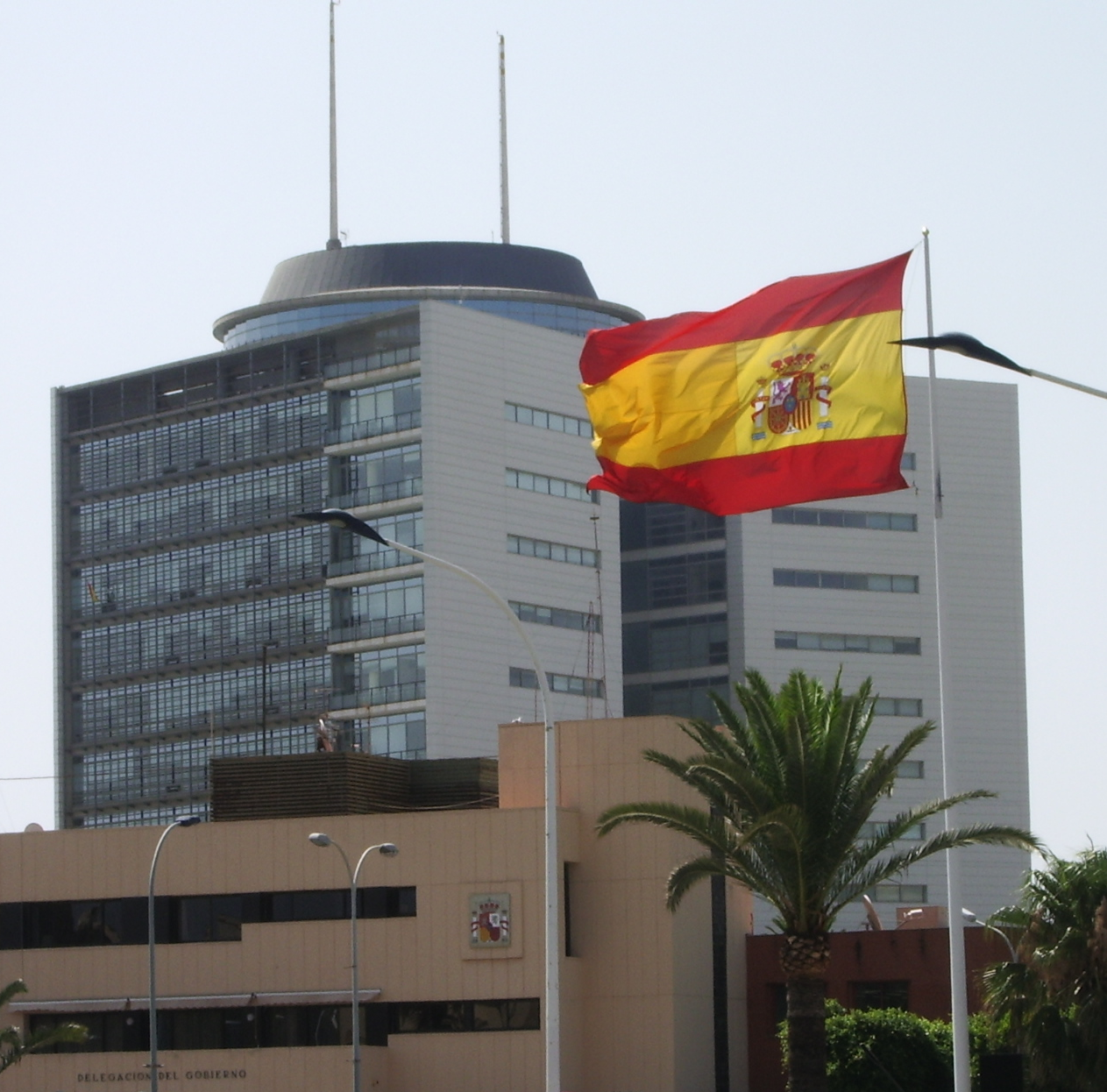 National flag, the Delegation of the Government in Melilla and the 5th Centenary Building.